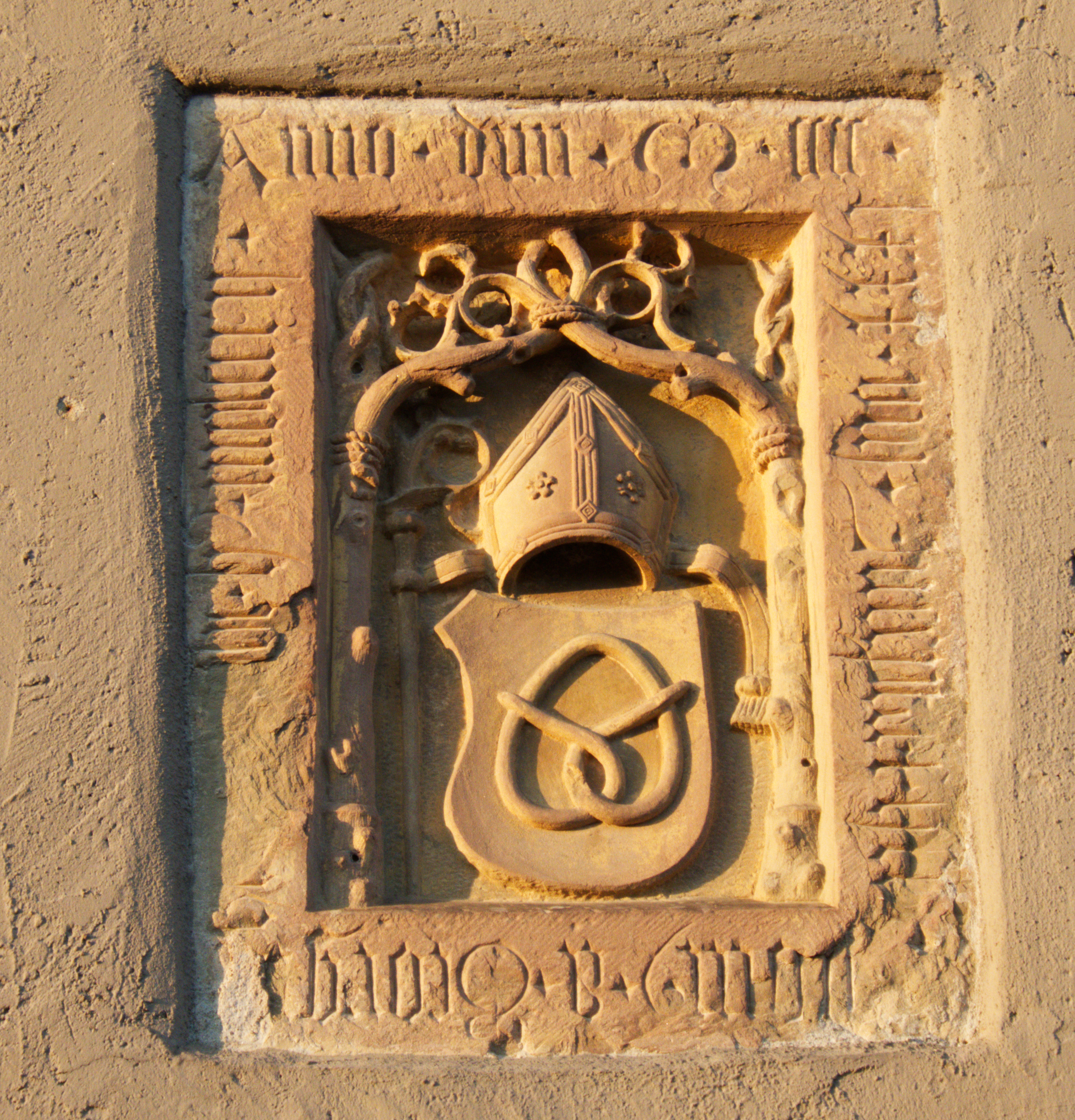 Coat of arms of Georg Kerler, abbot of Kloster Lorch from 1481 to 1510.